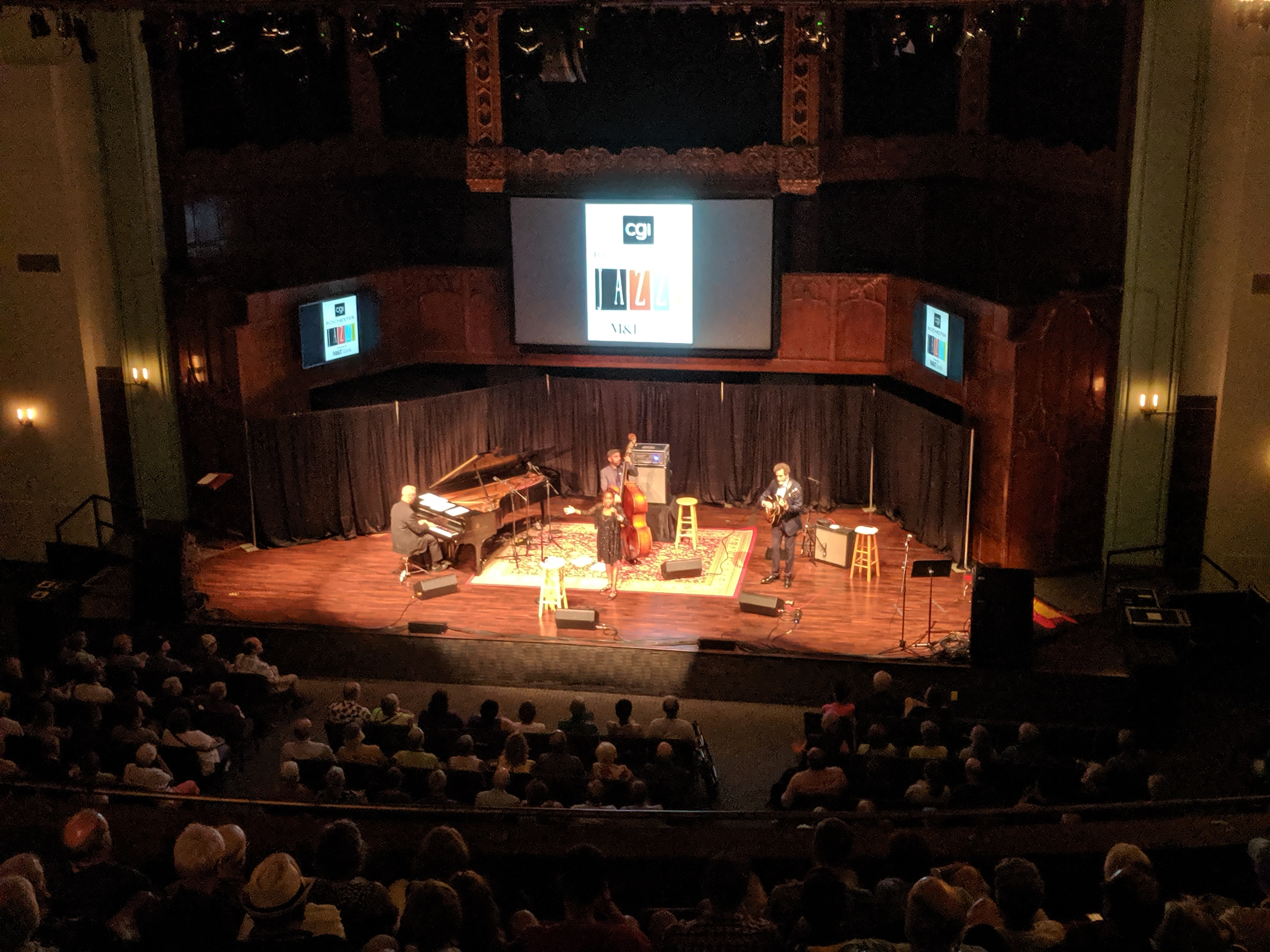 Catherine Russell (singer) performs as part of the Rochester International Jazz Festival 2019 in the Temple Building (Rochester, New York)